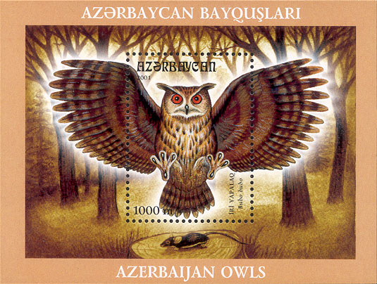 Stamp of Azerbaijan